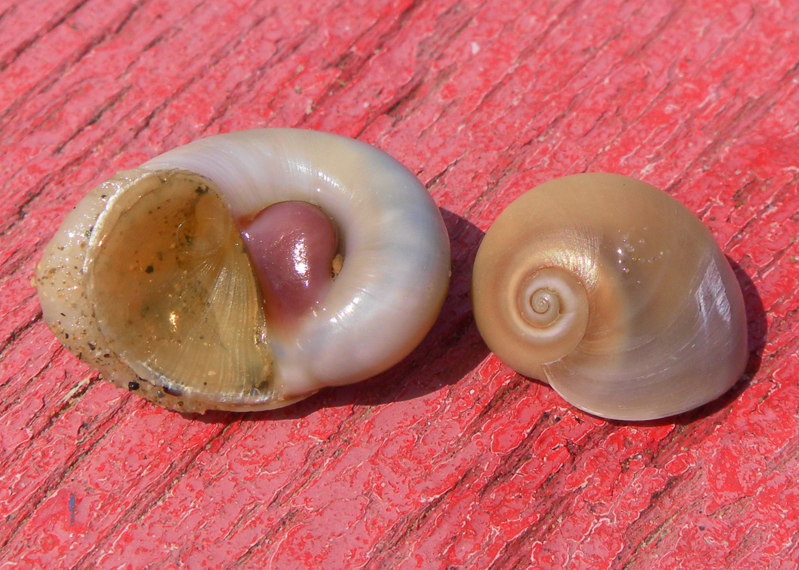 Neverita josephinia live specimens from Senigallia(ITALY).